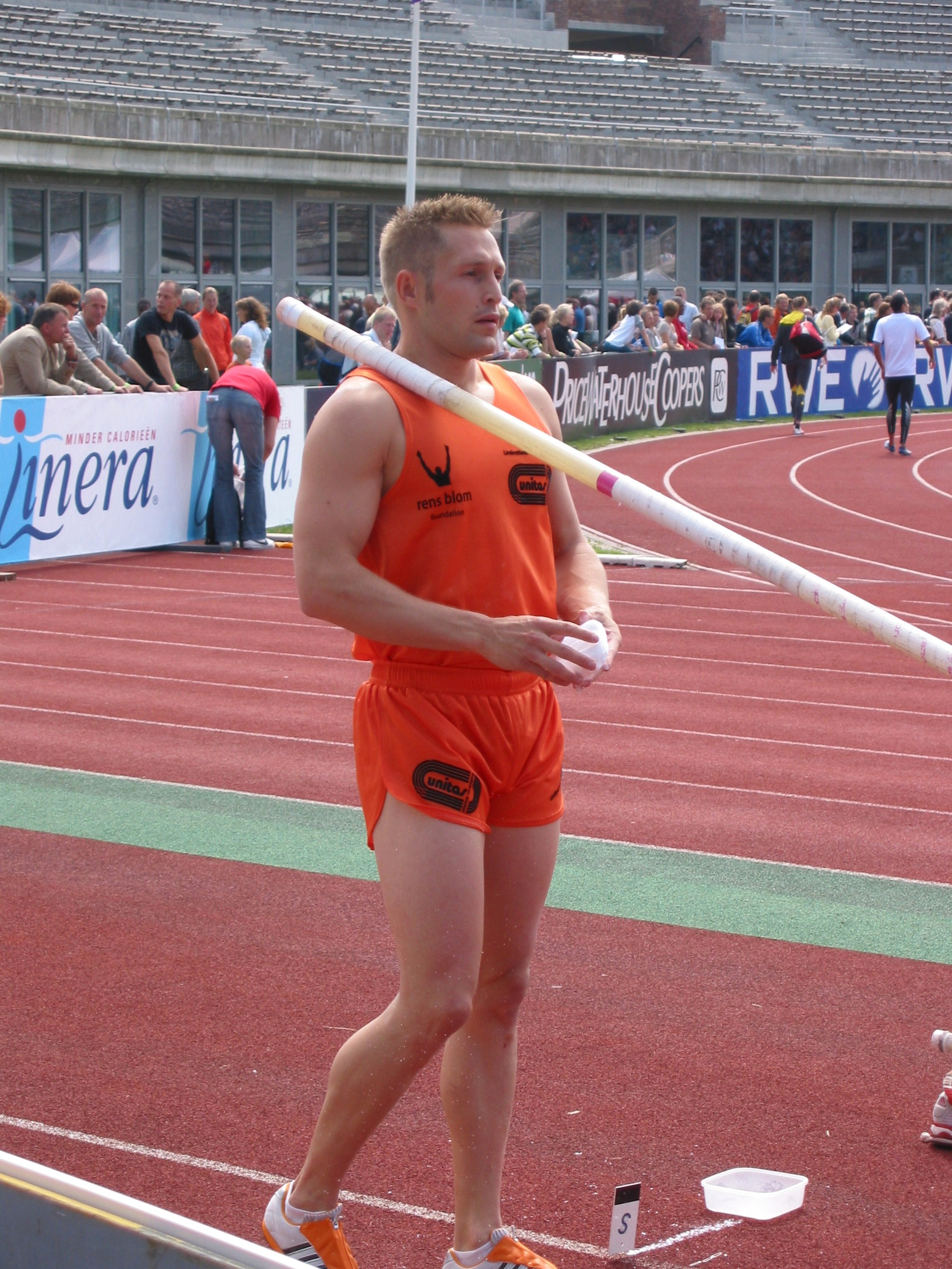 Rens Blom, Dutch Championships 2007, polevaulter